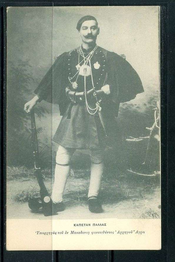 Kapitan Pallas